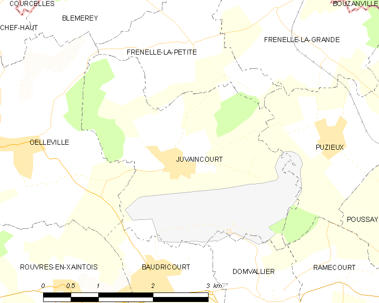 Map of French municipality Juvaincourt